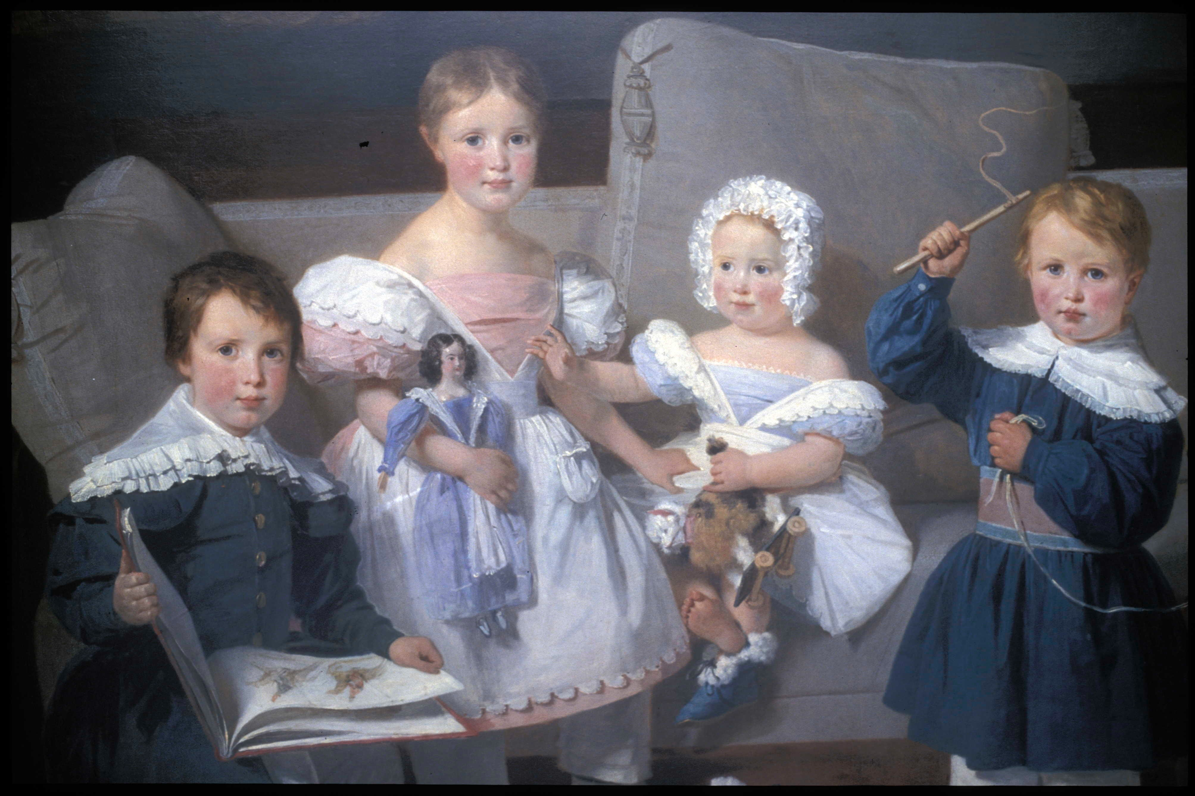 A painting within Millcombe House, built for the Heaven family (Lundy was the Kingdom of Heaven) on Lundy.